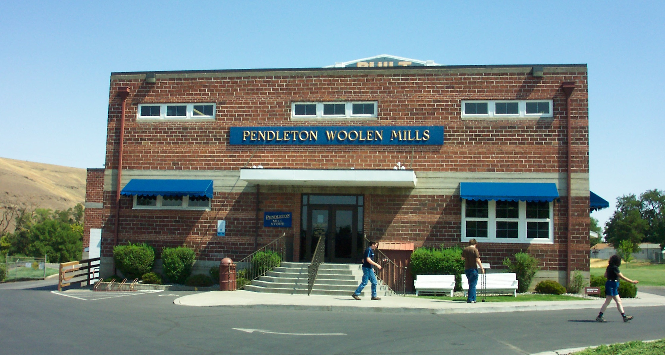 Pendleton Woolen Mills, Pendleton, OR